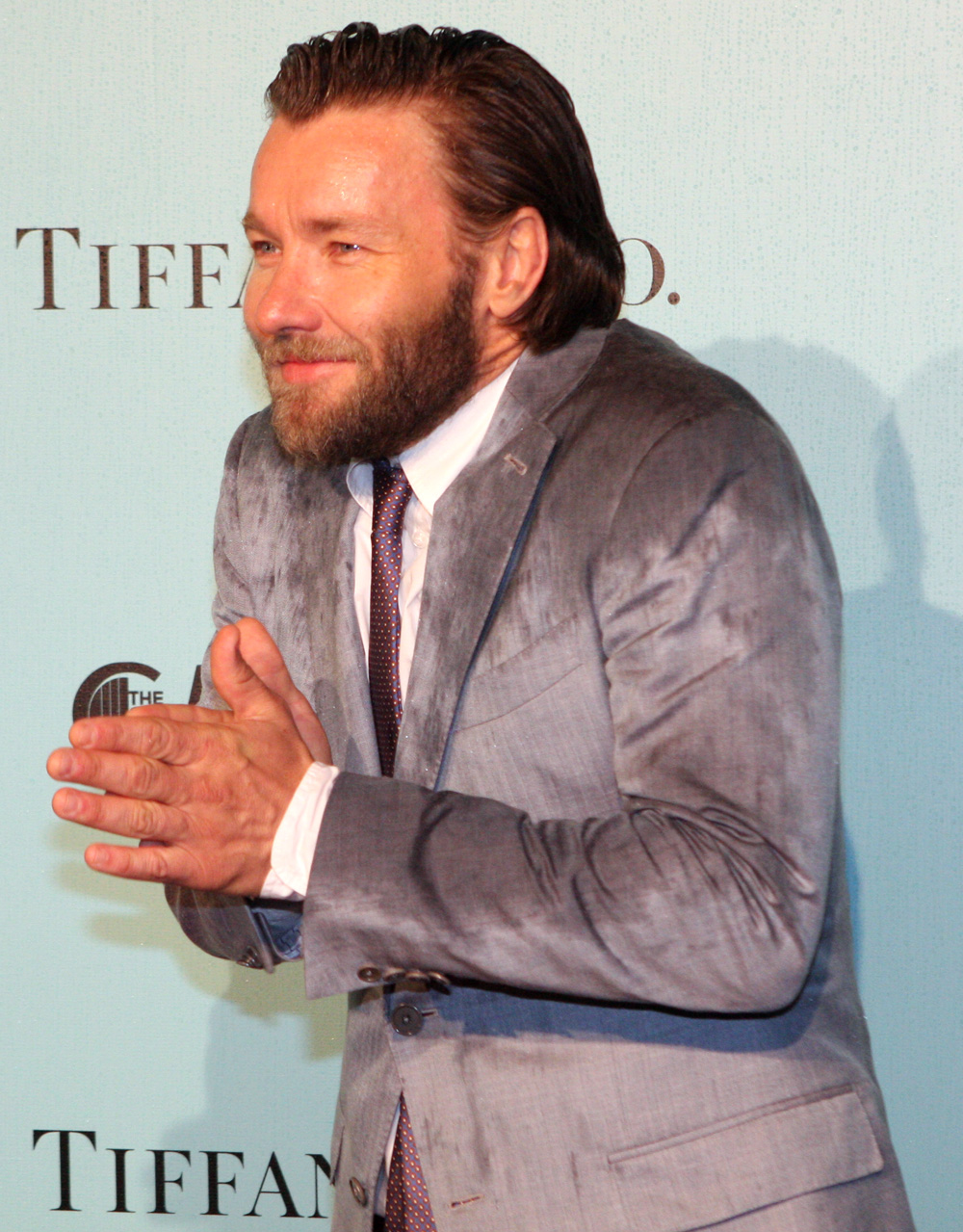 Joel Edgerton at the The Great Gatsby Premiere Sydney Australia 2013.